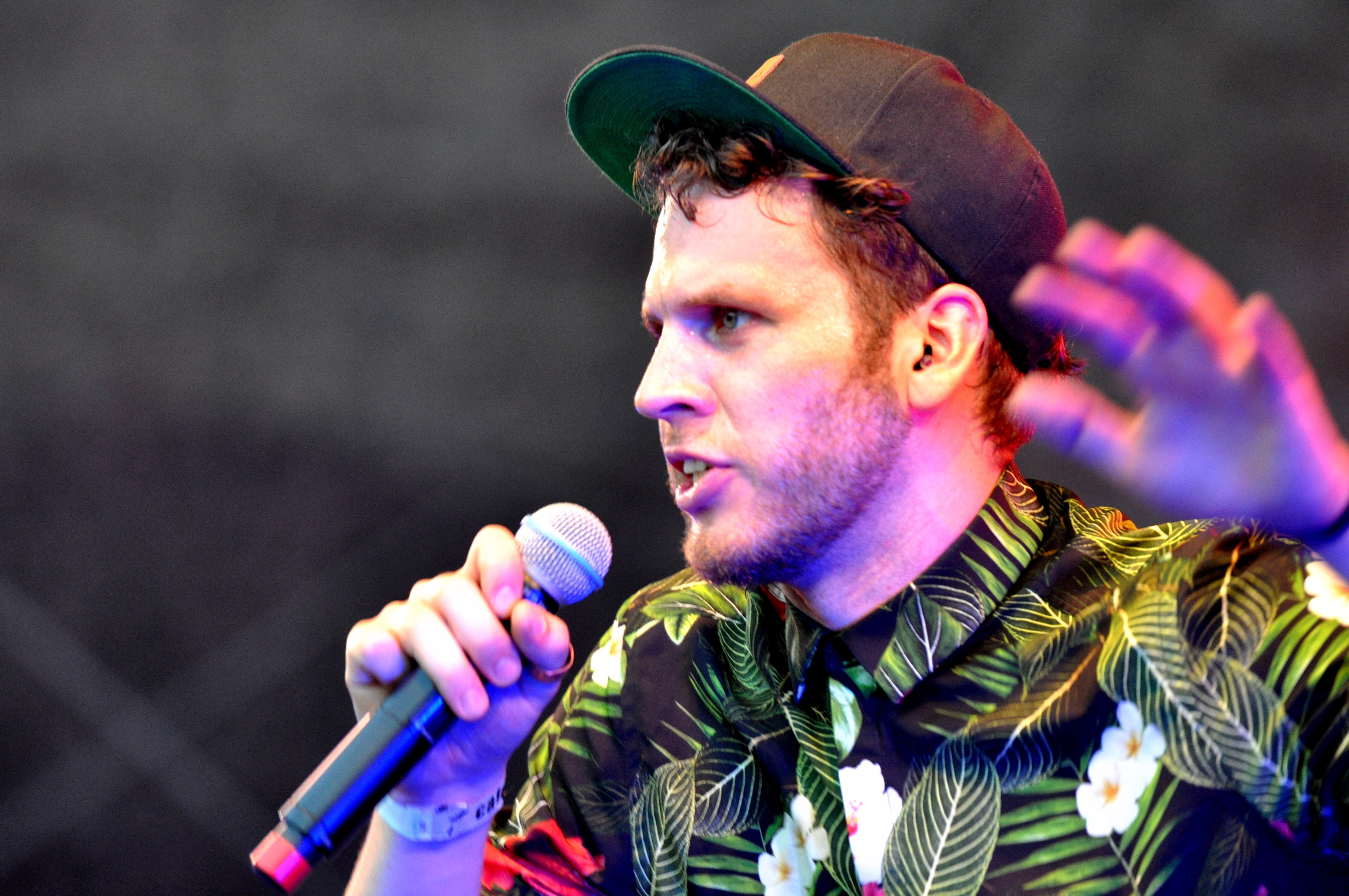 Banda Senderos (DEU/CHL/COD/POL), World Music Festival Horizonte 2015, Ehrenbreitstein Fortress, Koblenz, Rhineland-Palatinate, Germany Festivalsommer This photo was created with the support of donations to Wikimedia Deutschland in the context of the CPB project "Festival Summer".